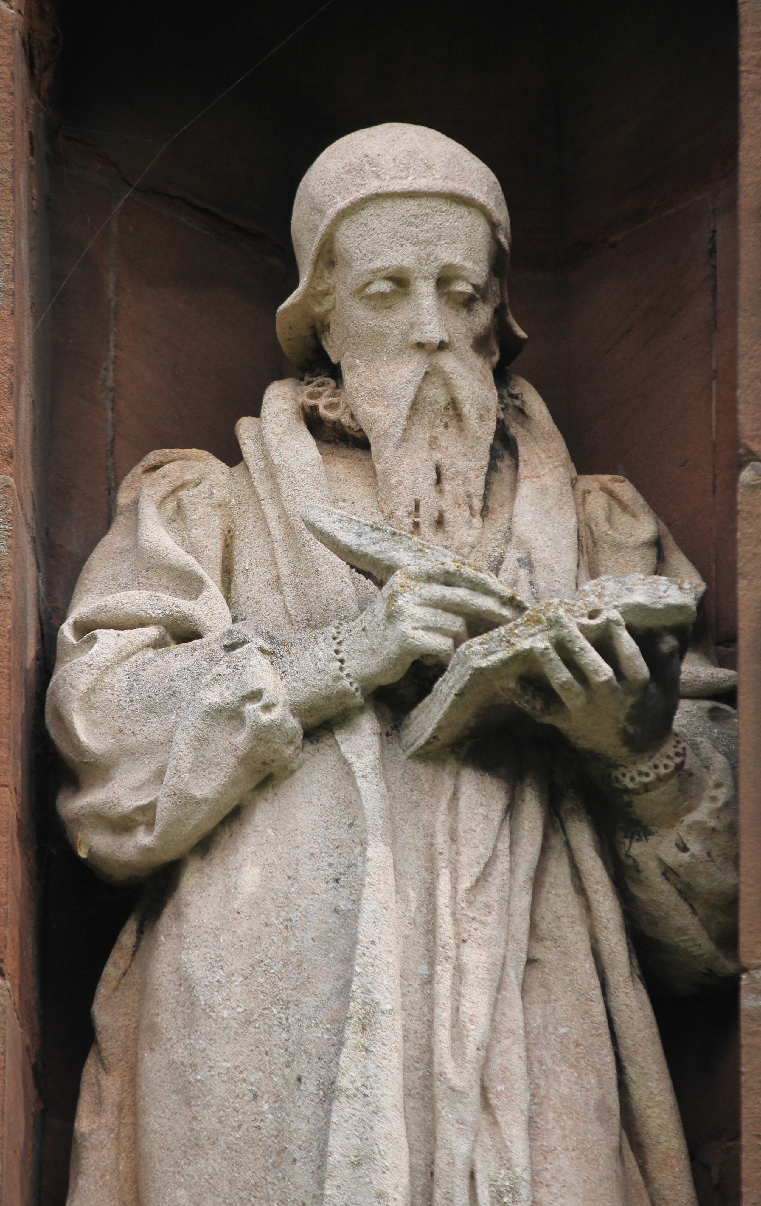 Sculpture of John Davies on the Translators' Memorial, St Asaph.